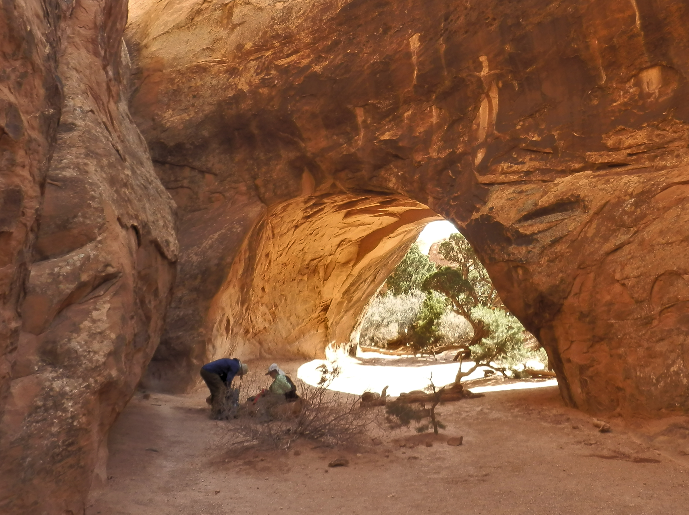 Arches Nationalpark Navajo Arch